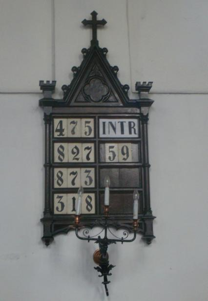 Board to number song in Our Savior Lutheran Church in Szopienice